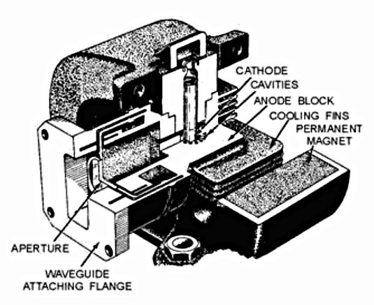 Drawing of a magnetron, a vacuum tube used as an oscillator to generate microwaves at high power levels, used in radar sets and microwave ovens, from a 1984 Naval training text. The tube is shown with part of the copper anode block cut away, revealing the cathode and cavity resonators. The magnetron shown here is several decades old, and uses two alnico horseshoe magnets. Modern magnetrons use more compact rare earth magnets.